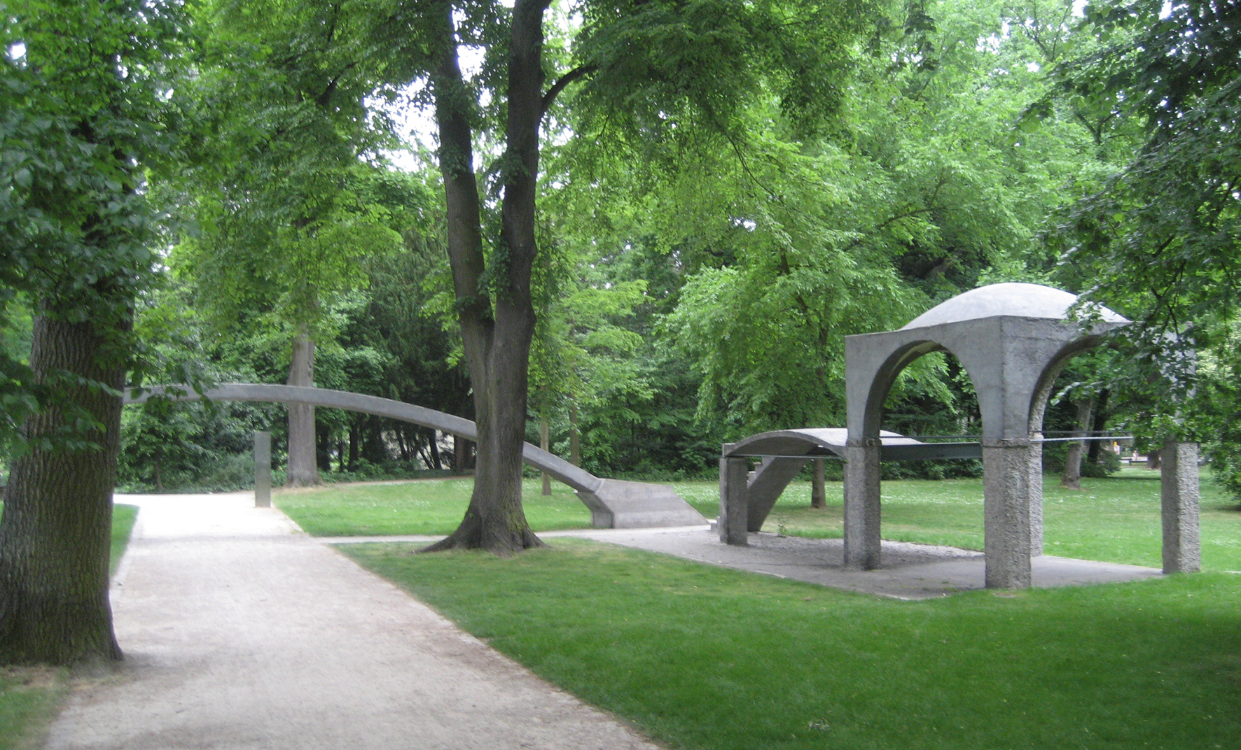 Dreieichpark, cement exhibition buildings built in 1879